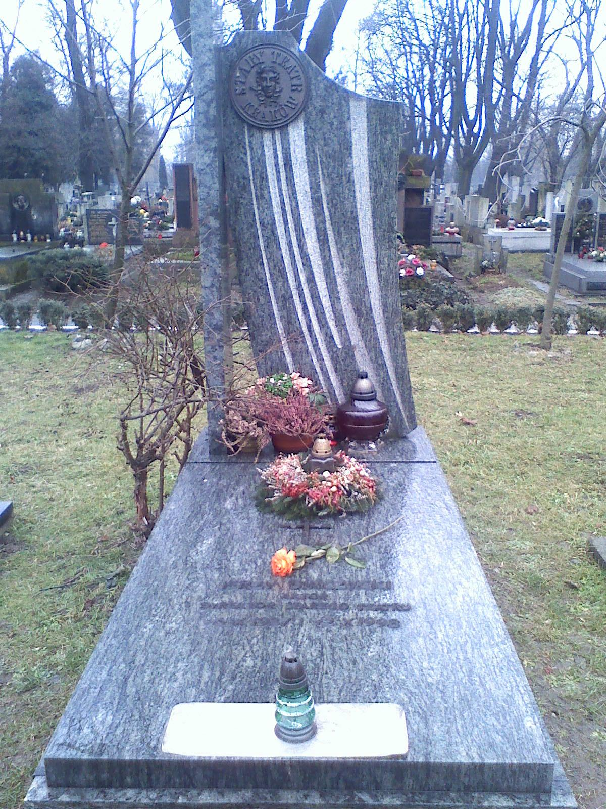 Polish actor Jerzy Bińczycki (1937-1998)